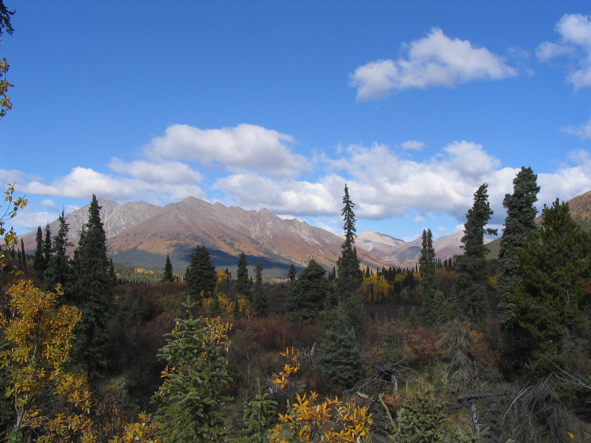 Fall landscape, Eastern Yukon Territory, Northern Canada, mountain landscape, pine, Quiet Lake, South Canol Road, depth, shape, curves, color,colour.